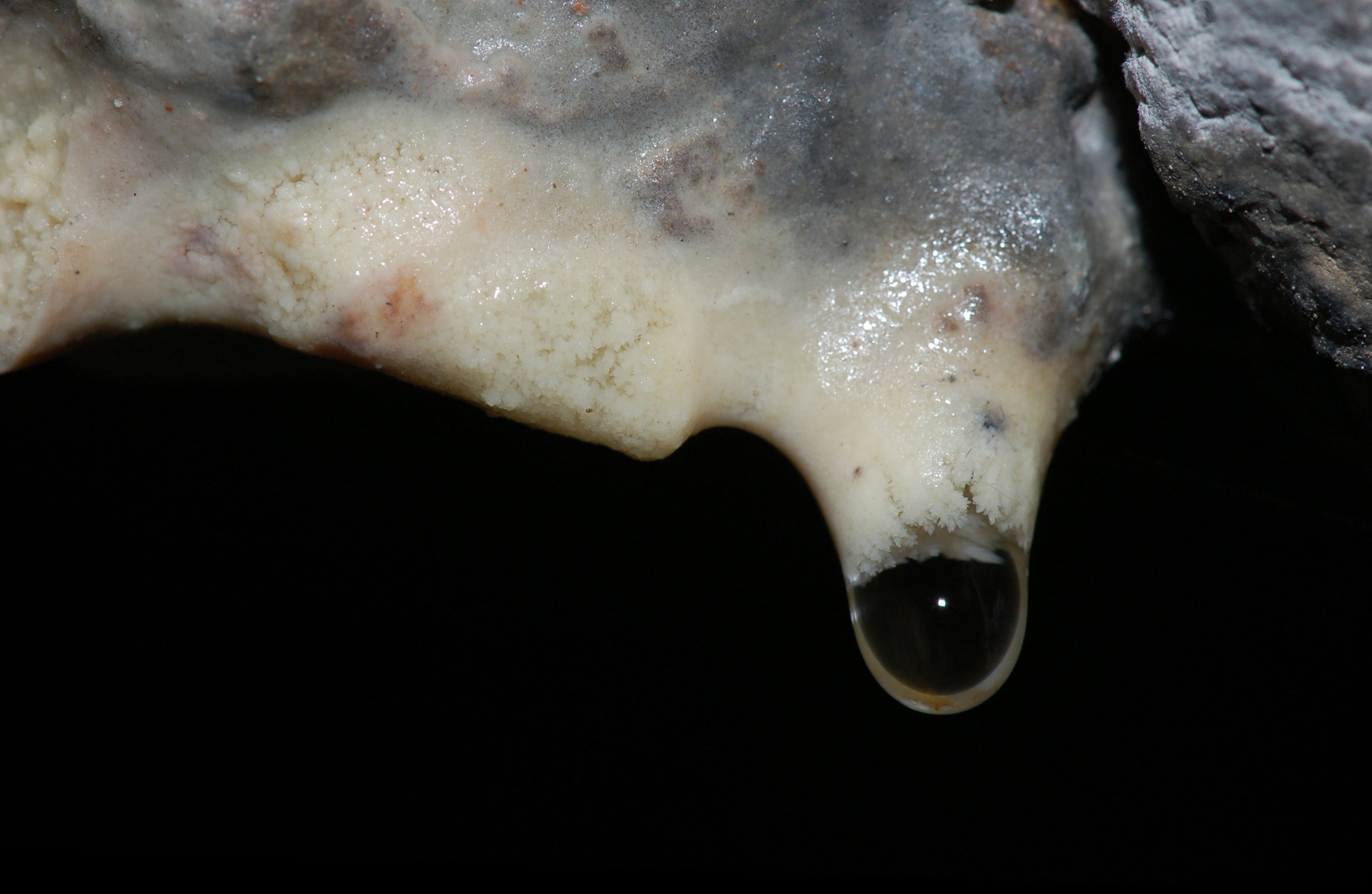 A stalactite drop from the ceiling of the Hallour cave in Lower Austria showing growing crystals.